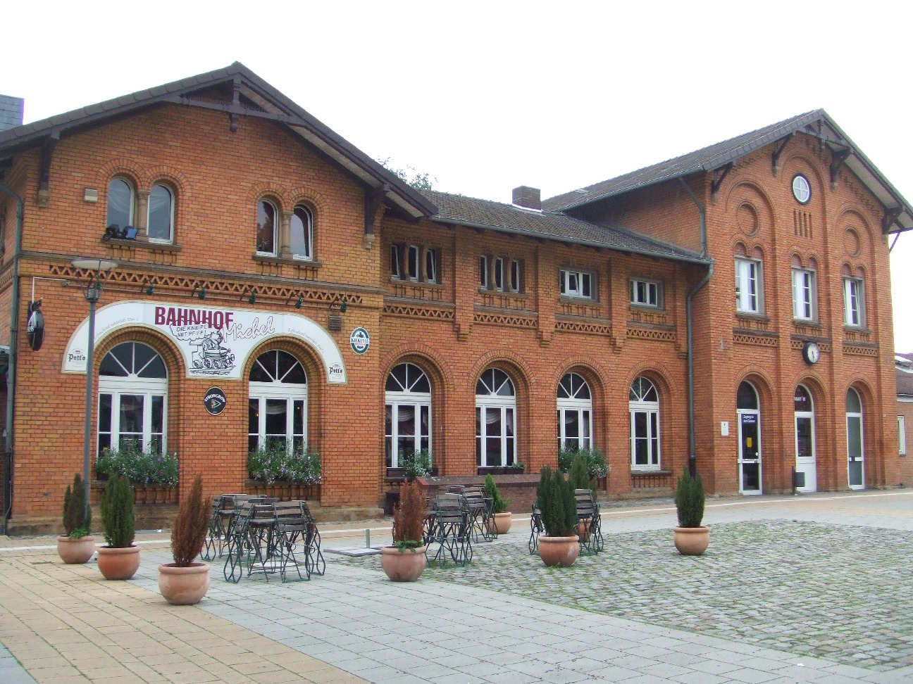 Train station of Bohmte